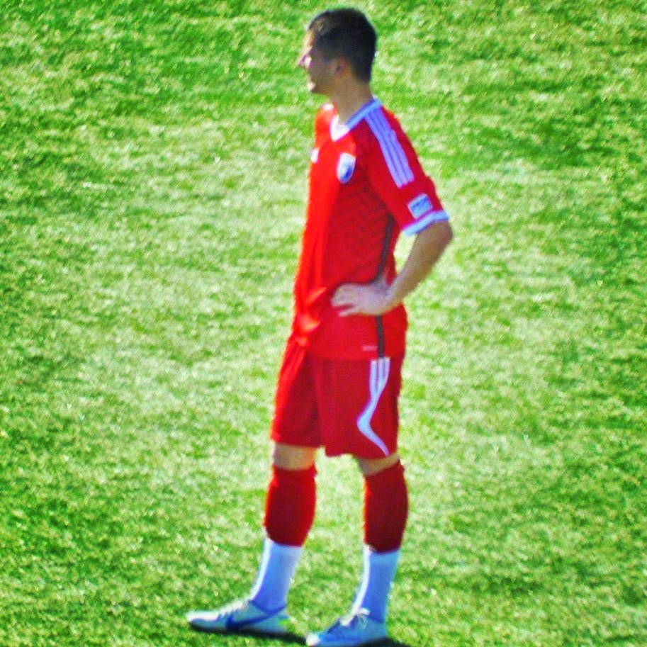 Simon Mrsic during a friendly game with SJ Quakes